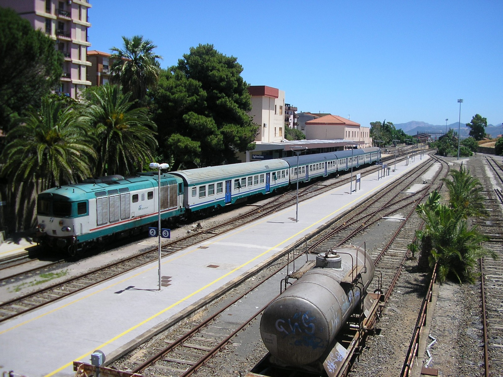 A Trenitalia train powered by a Diesel Locomotive FS Group D445 inside the Iglesias FS railway station, in Sardinia, Italy.